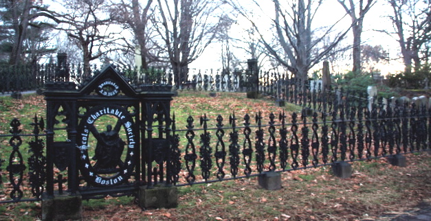 Scots Charitable Society lot, Mount Auburn Cemetery, Cambridge, MA